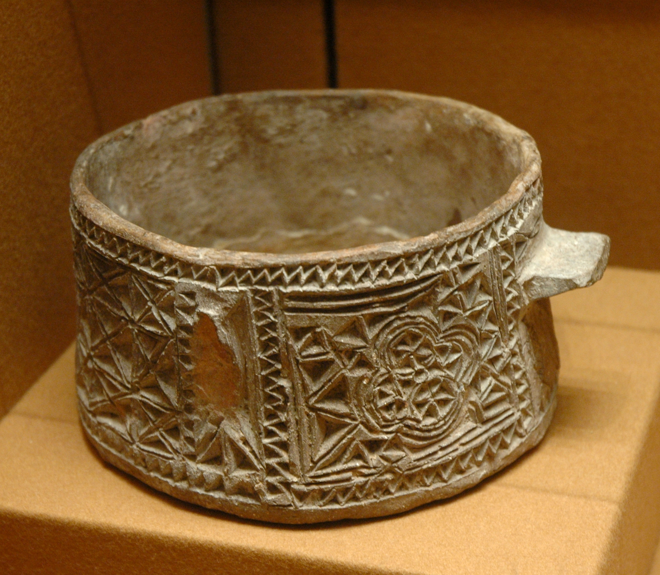 Pot, Abbasid art.